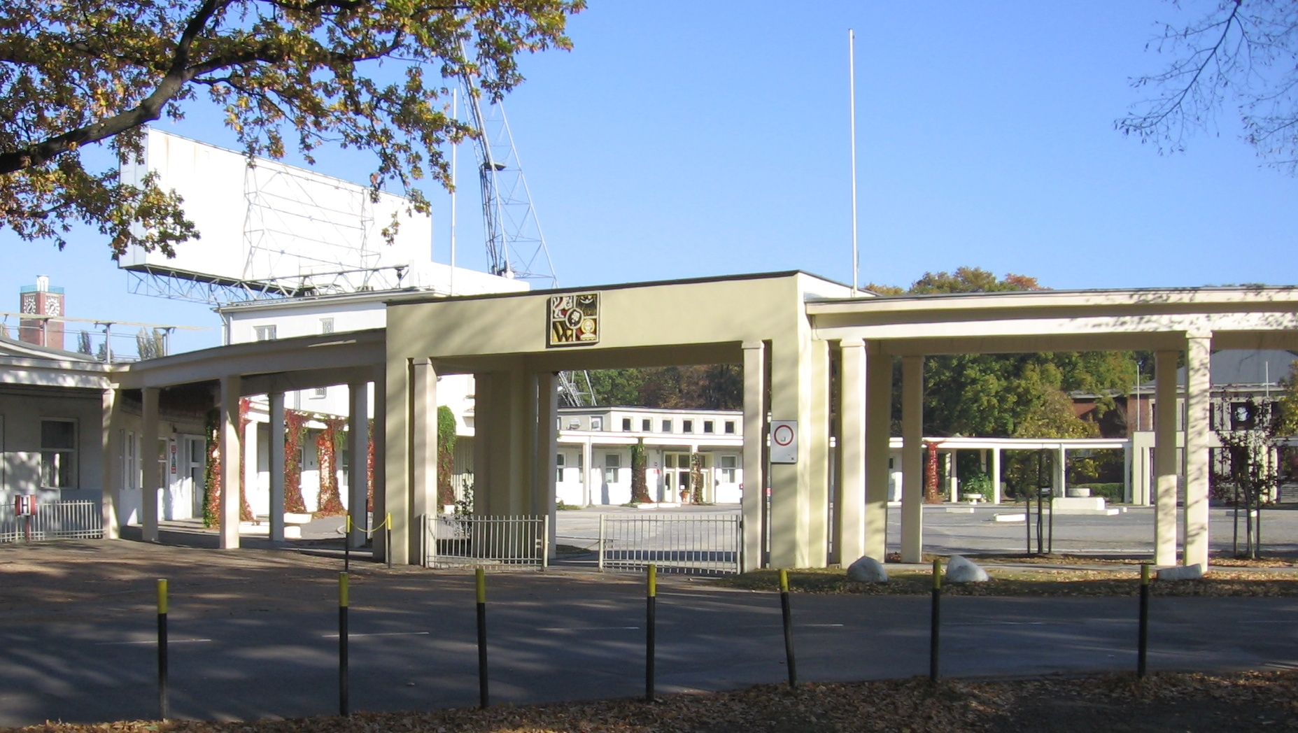 "Olympic" Stadium in Wrocław, design arch. Richard Konwiarz 1924-25